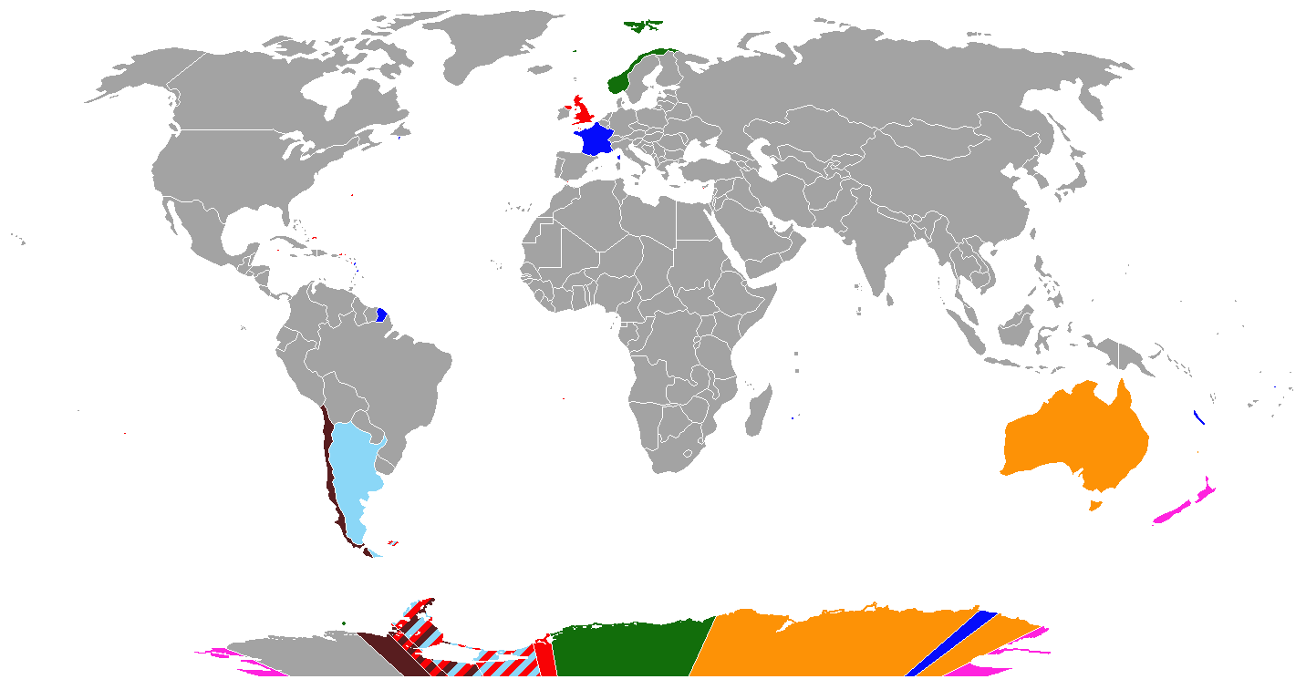 Territorial claims in Antarctica, based on Image:BlankMap-World.png